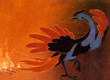 screenshot from Why Is the Crow Black-Coated (1956)